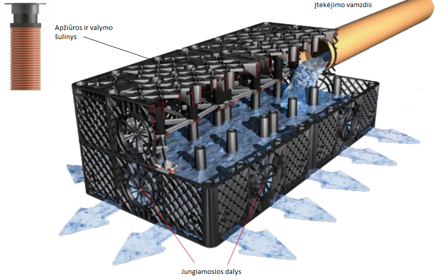 Rain bloc